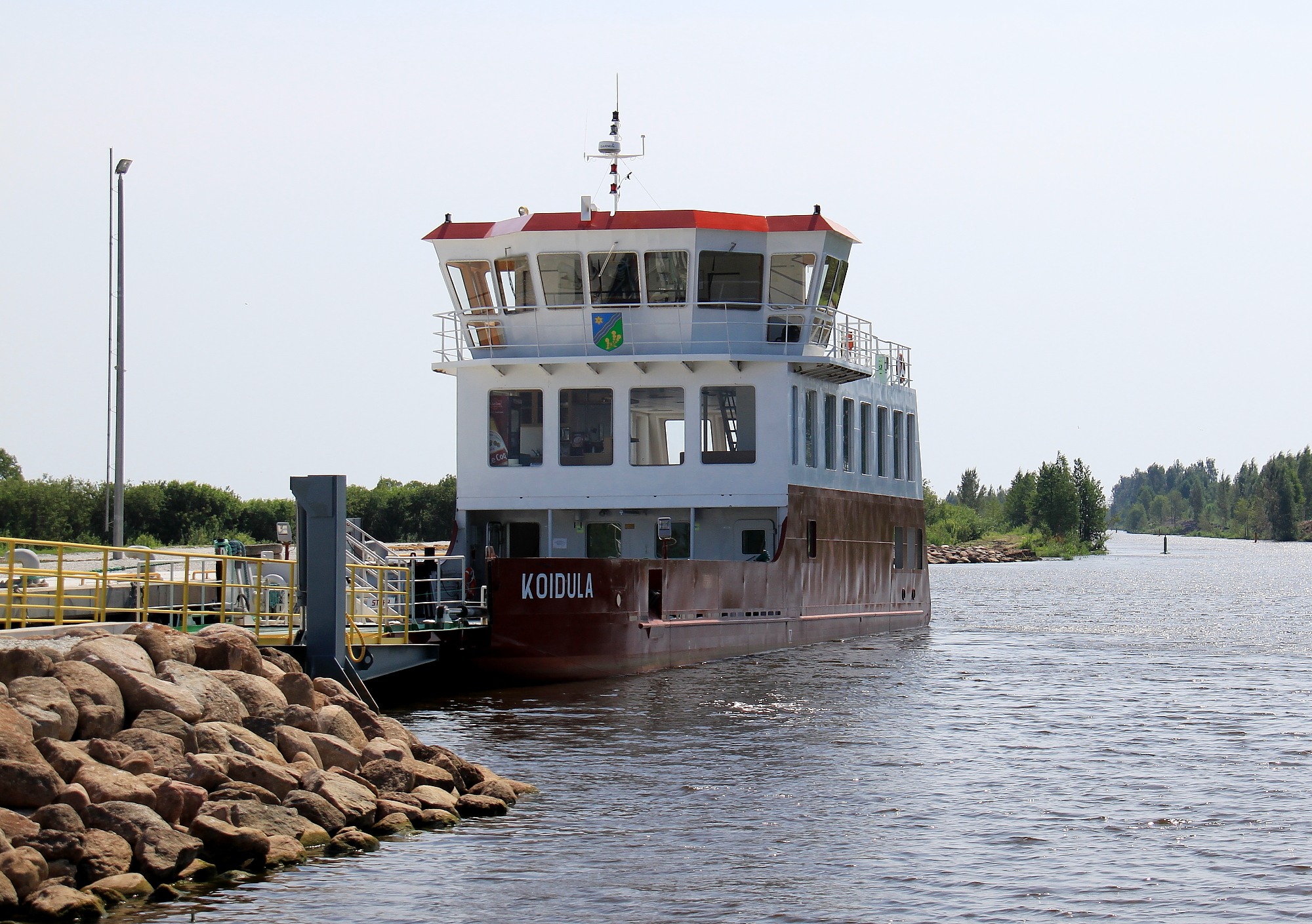 M/S Koidula